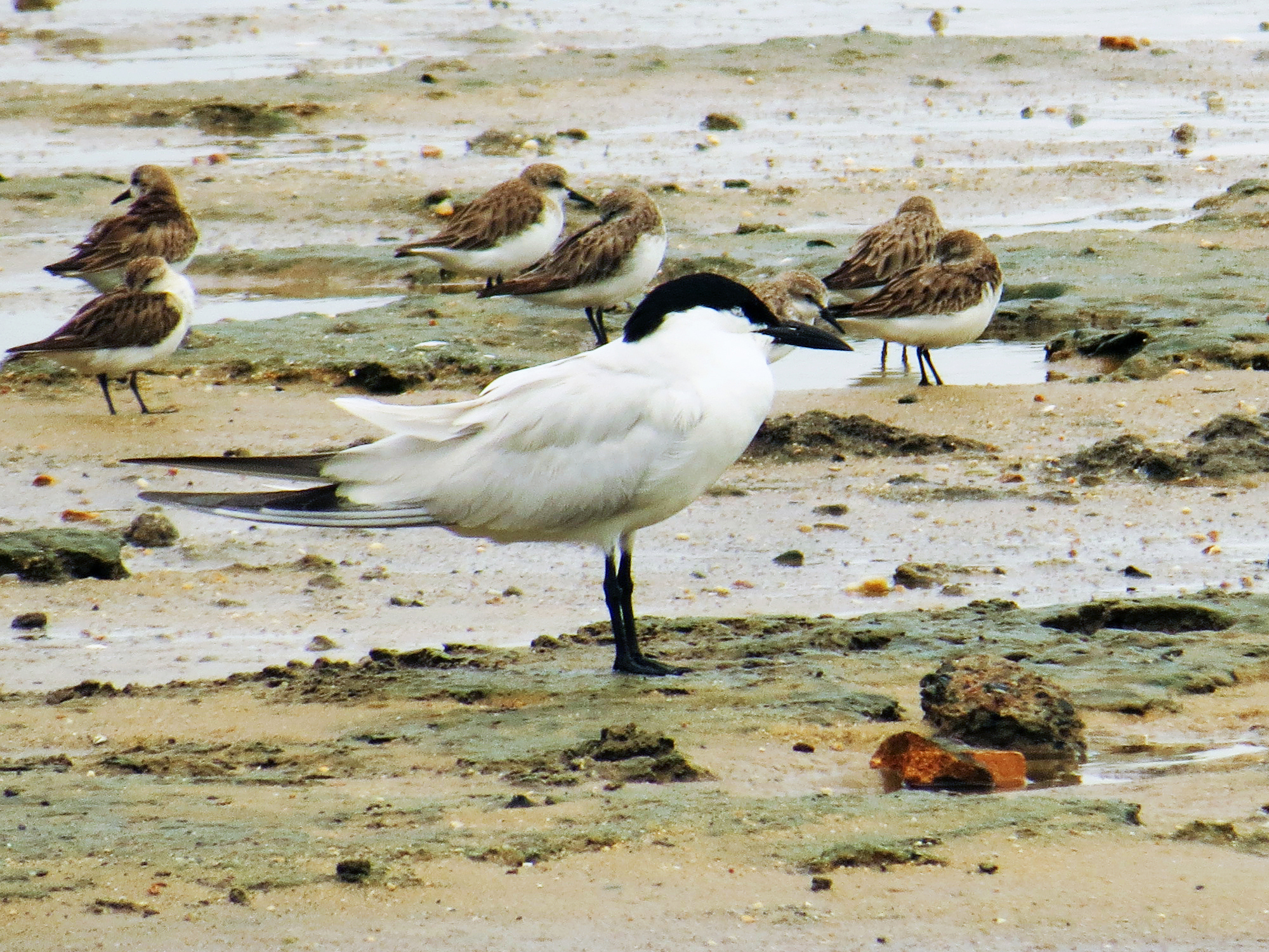 Australian Tern Gelochelidon macrotarsa (Gmelin, 1789), and Red-necked Stint Calidris ruficollis (Pallas, 1776), Cairns Esplanade, Cairns, QLD, 21 November 2014